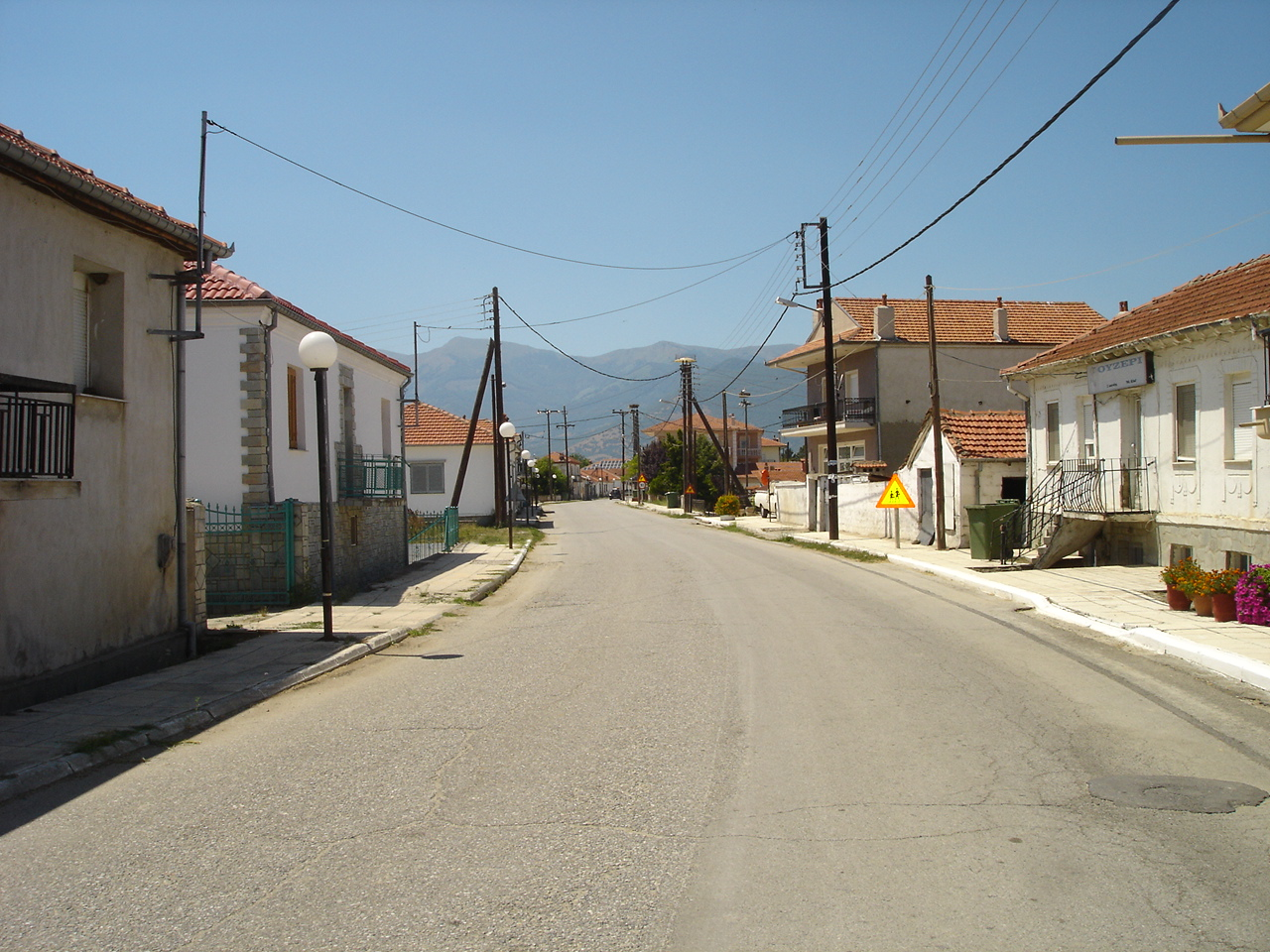 village of Vrbeni (Itea) in Aegean Macedonia, Florina Prefecture, Greece